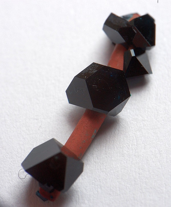 Copper(II)acetate crystals on electric copper wire.